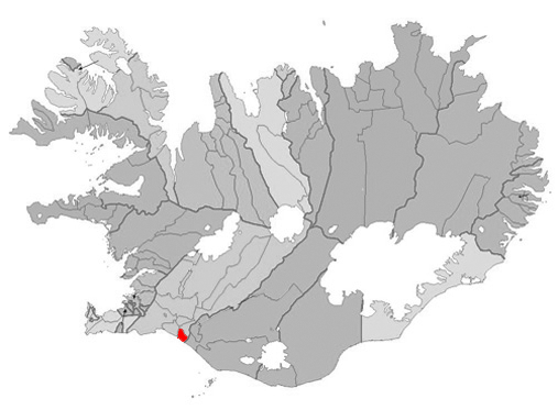 Based on Municipalities of Iceland.png.